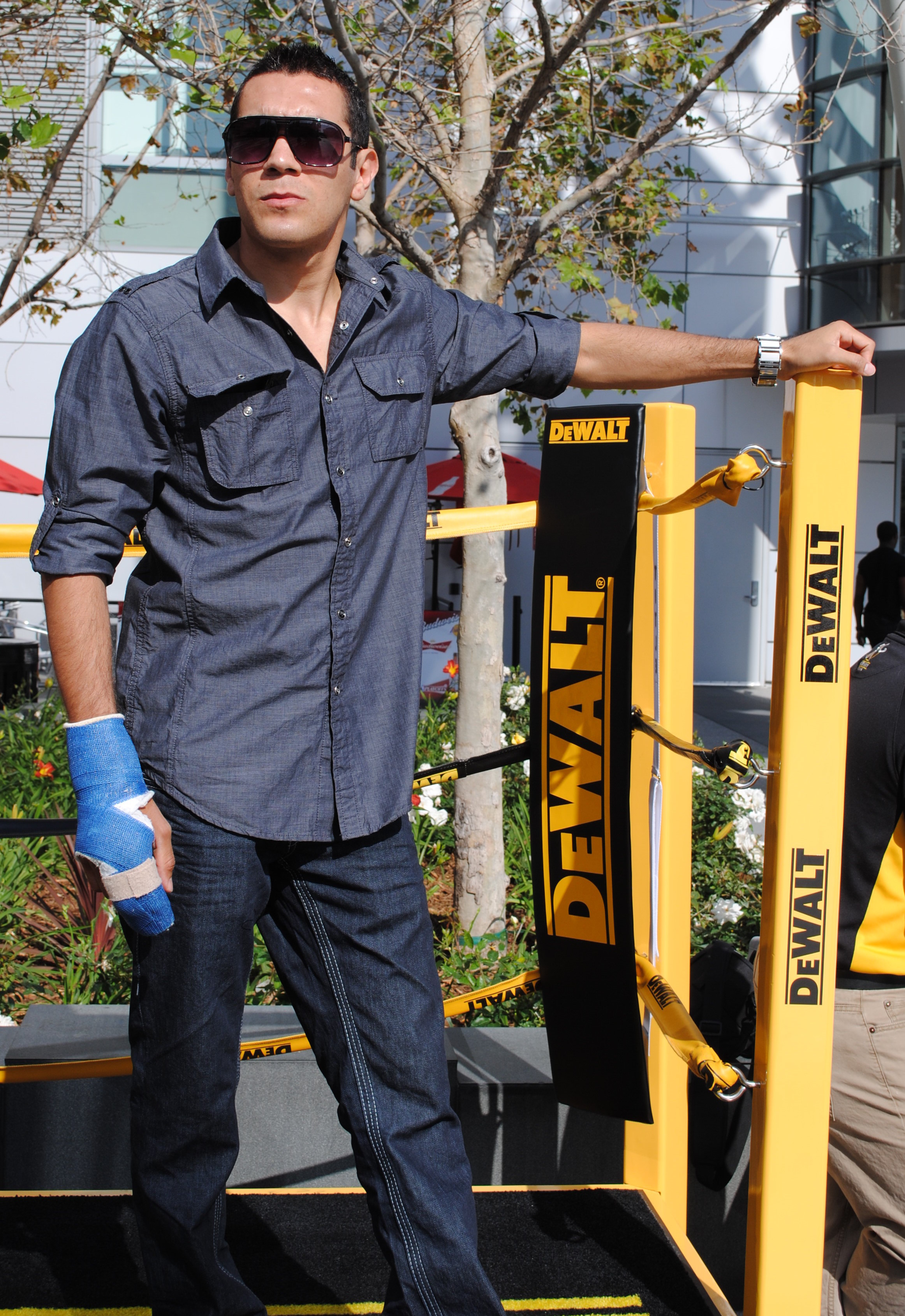 Vicente Escobedo at the Staples Center.